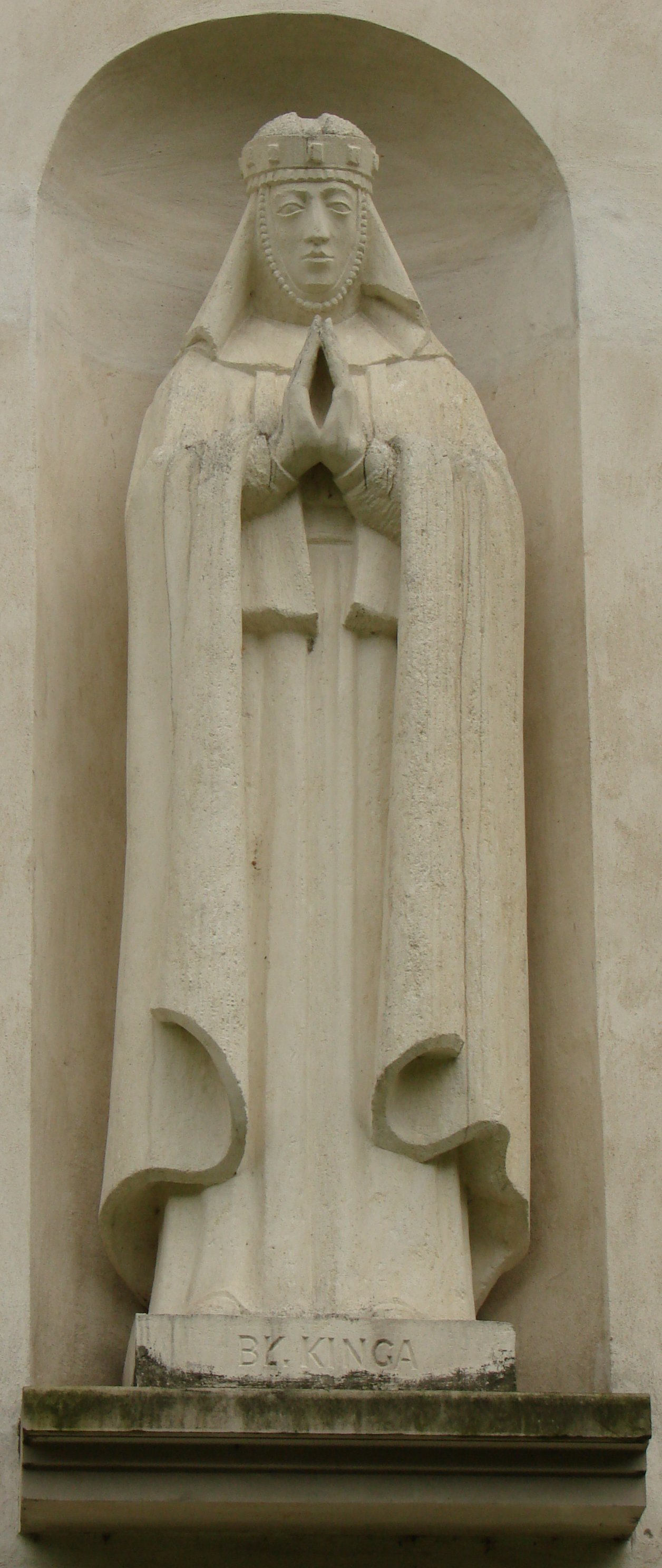 Sculpture of Saint Kinga from Saint Joseph's church in Muszyna, Poland